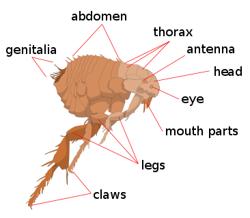 Morphology of a flea